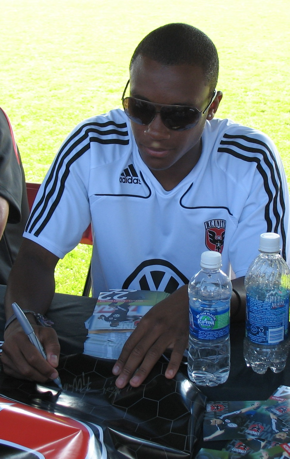 Rodney Wallace Signing Autographs